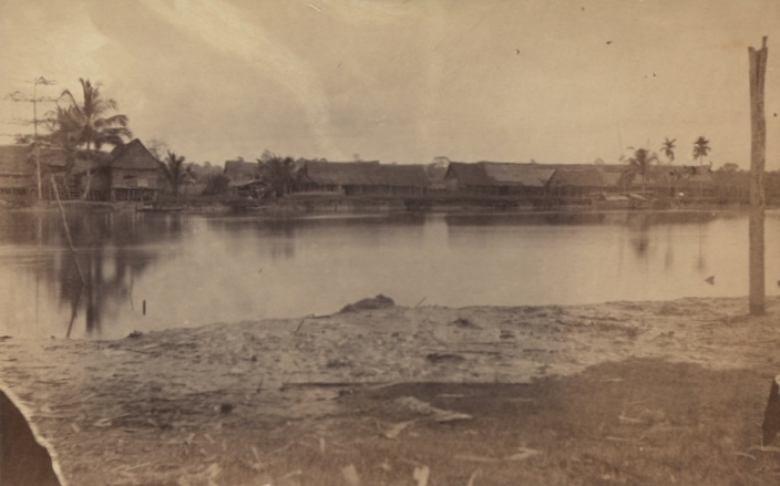 CO 1069-484-126 Description: Malayan Peninsula. View of the Chinese village at Langat on the Jugra river. Straits Settlements, June 1874 Location: Langat, Malaya Date: June 1874